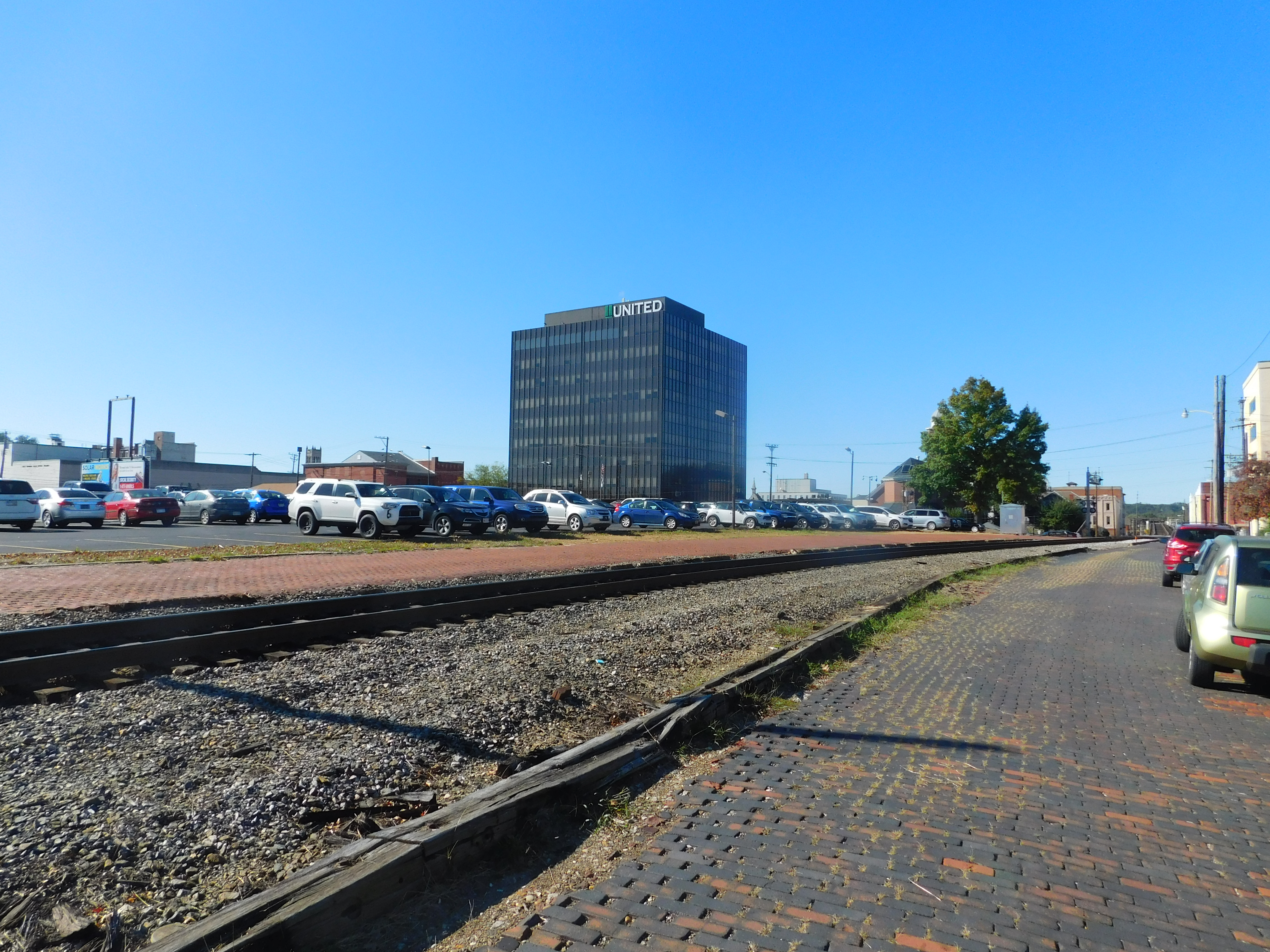 The former Amtrak station in Parkersburg, West Virginia in October 2018.